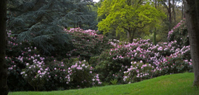 picture for infobox